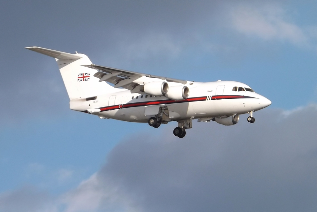 ZE701 BAe 146 CC.2 Royal Air Force (Queen's Flight) landing Glasgow June 2013